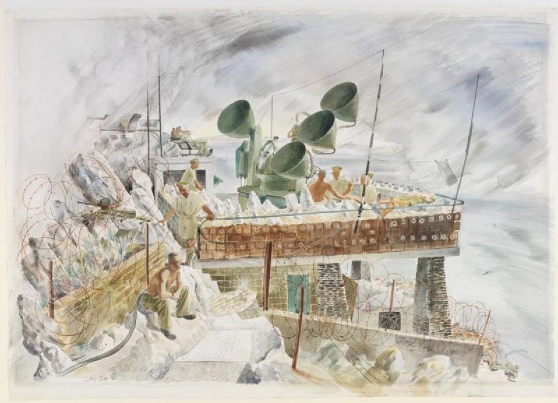 Listening-post at Spyglass, Gibraltar image: British soldiers gathered at a listening post at Spyglass, Gibraltar, looking out over the Mediterranean. The machinery of the post dominates the centre of the composition, its four cone shaped receivers facing skywards. It is incorporated on the roof of a small building made from brick and concrete. Six soldiers are standing, sitting and lying on the roof, one of the men sun- bathing. Another man sits shirtless, staring out to sea with a machine gun post beside him. In the background, another man lies back on a reclining chair, looking up at the sky with a pair of binoculars. Coils of barbed wire, orange with rust, are placed around the outpost.